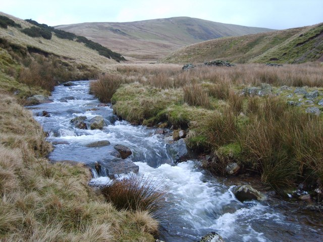 River Calder Old Bield in shot.